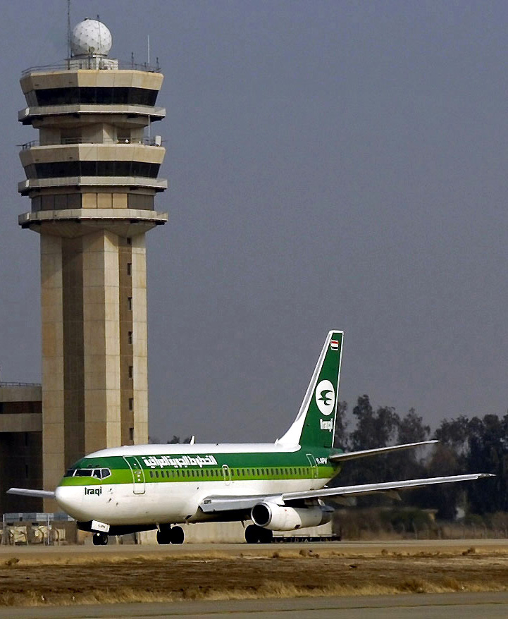 An Iraqi airlines 737-200 taxis in front of the control tower at the Baghdad International Airport Jan. 29, 2008 in Baghdad, Iraq.